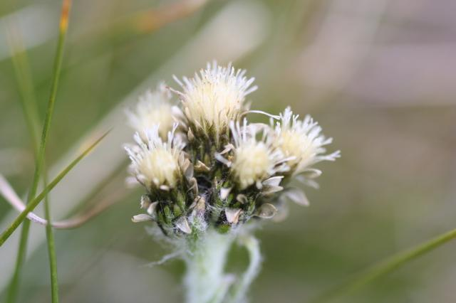 (en) Antennaria carpathica, a photography originating of the internet site The accord of the autor, H. Brisse, is here. (fr) Antennaria carpathica, une photographie issue du site internet L'accord de l'auteur, H. Brisse, se situe ici.